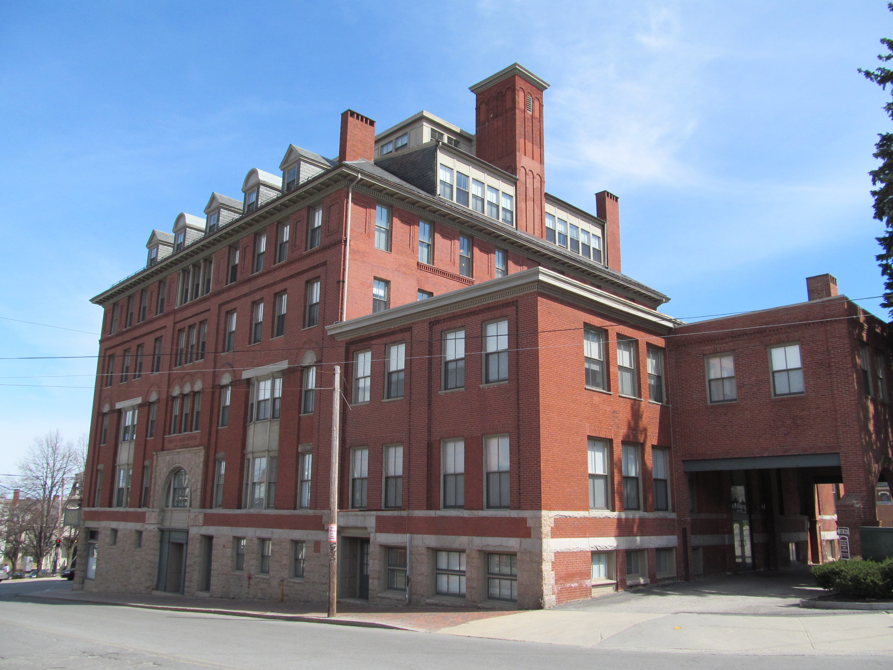 Maine Eye and Ear Infirmary, Portland Maine